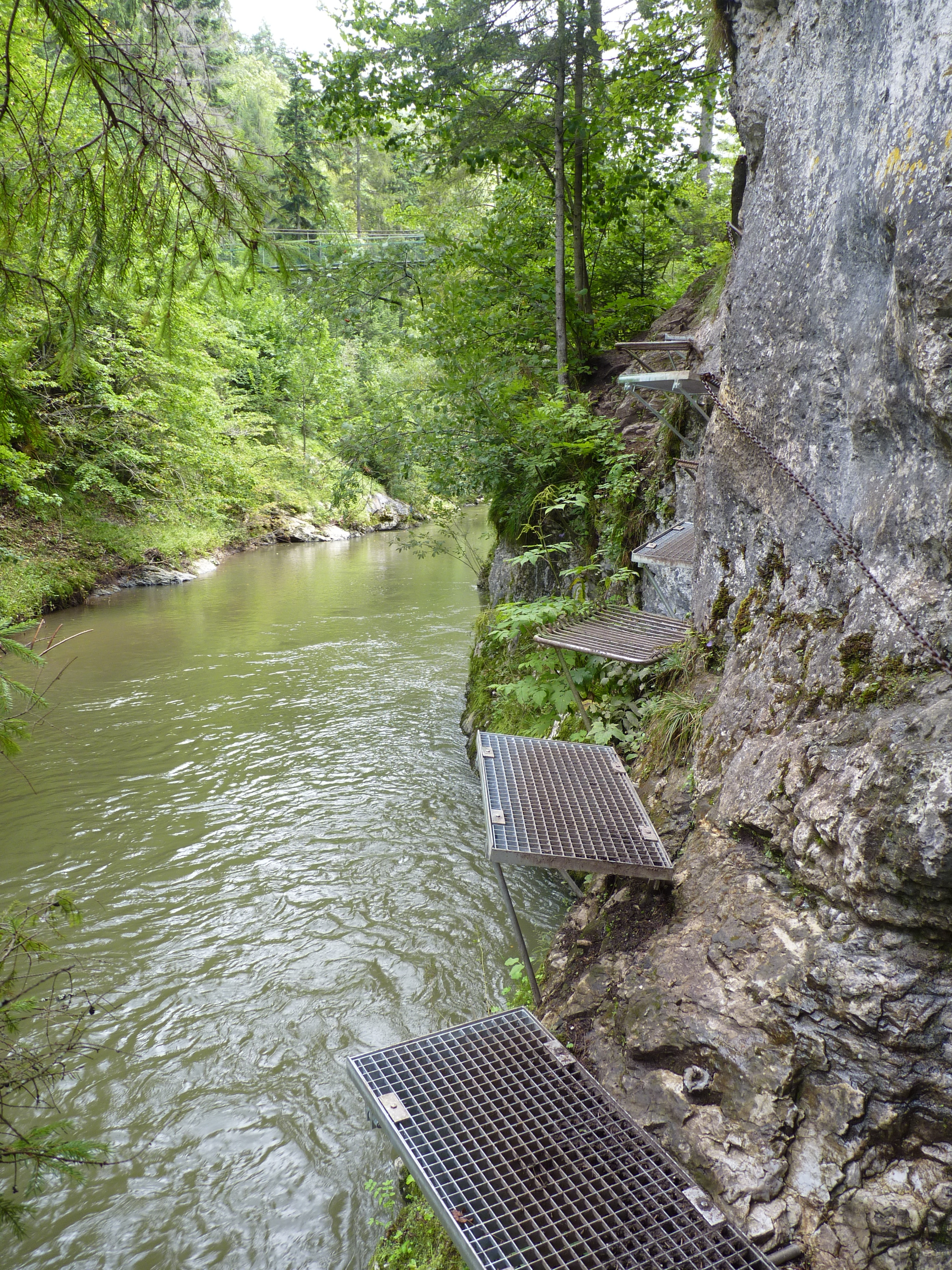 Prielom Hornádu. Slovak Paradise, Slovakia